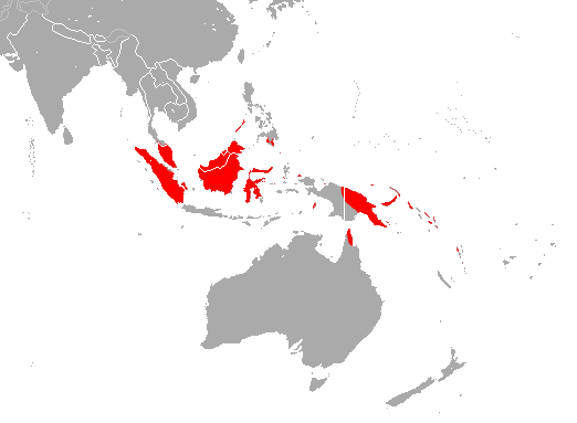 Fawn Roundleaf Bat (Hipposideros cervinus) range